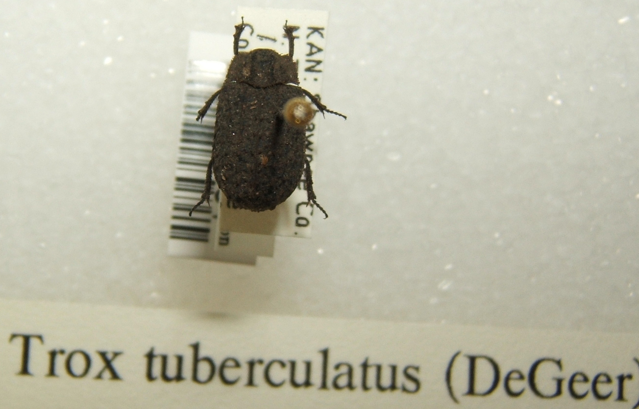 Trox tuberculatus adult taken by Shawn Hanrahan at the Texas A&M University Insect Collection in College Station, Texas. Cropped version: Trox tuberculatus sjh.cropped.jpg